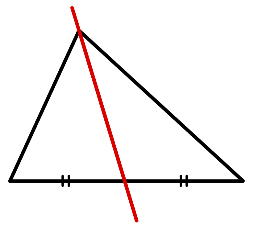 Median line of a triangle. The Gimp source file is available from the author.